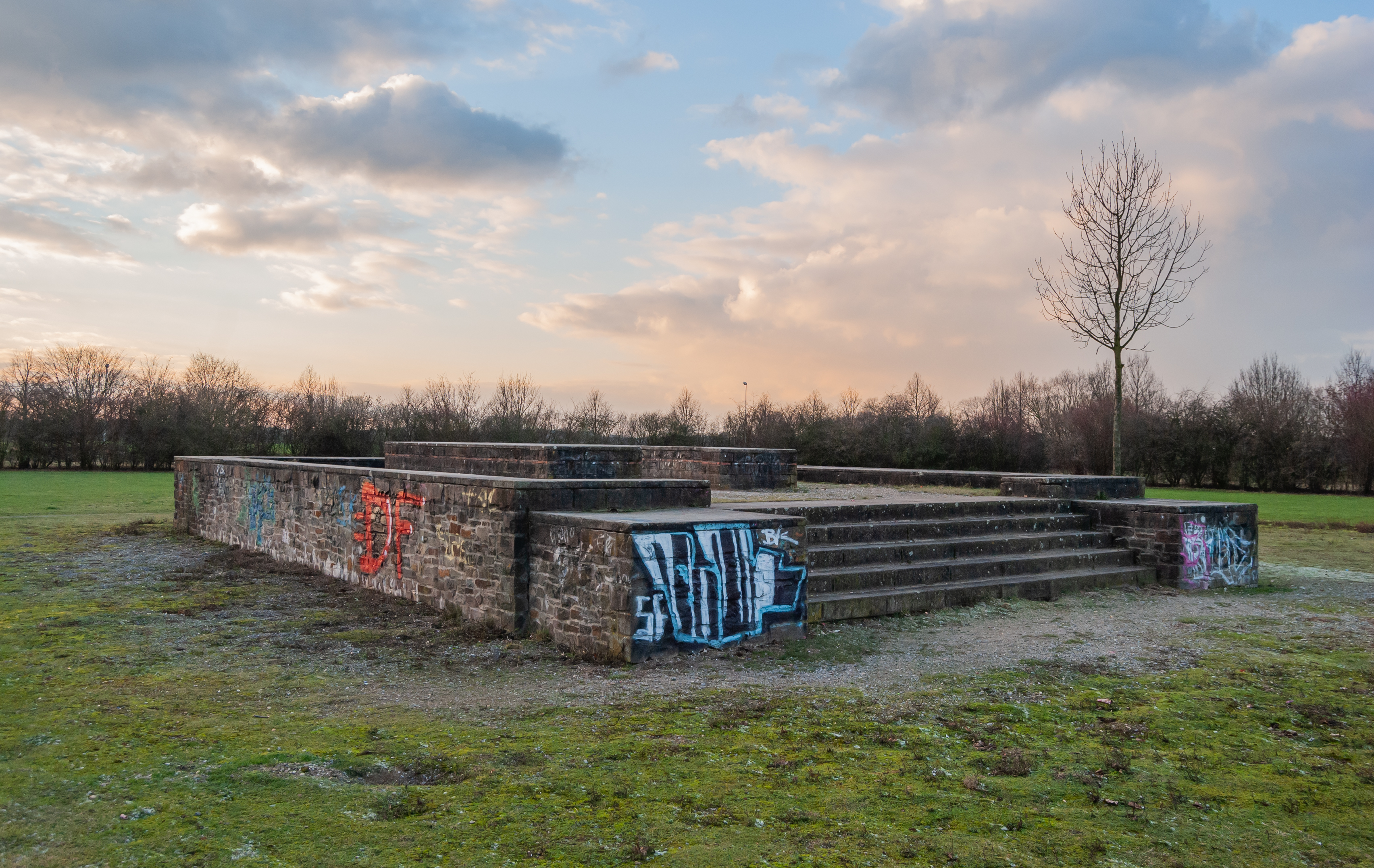 Krefeld (North Rhine-Westphalia, Germany) – district Elfrath – Sanctuary of Elfrath – former temple – foundations